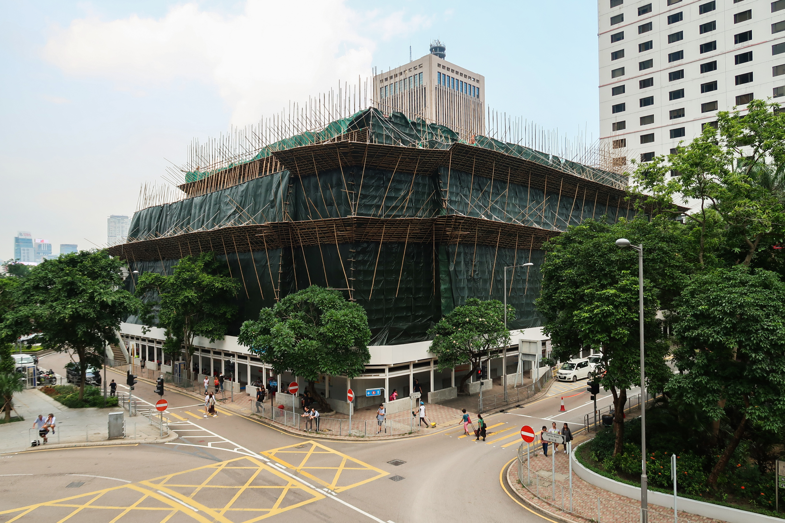 Hutchison House demolishion site